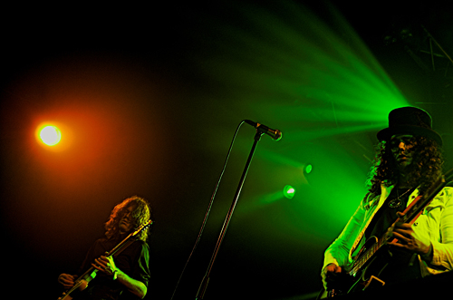 Witchcraft, live at Hole In The Sku, Bergen Metal Fest 2006